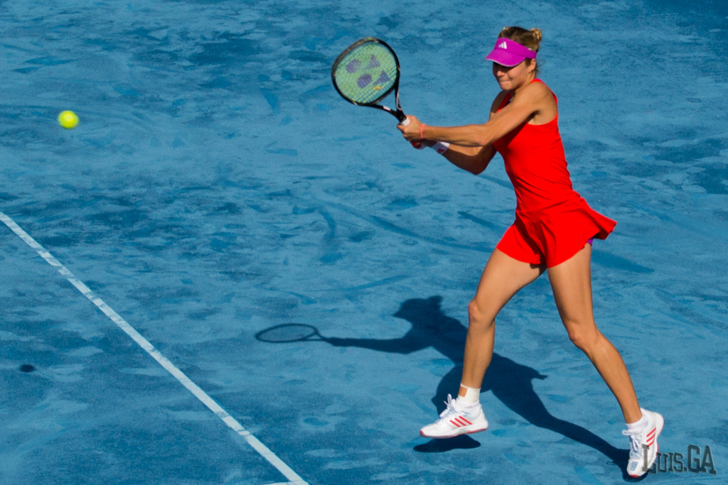 Kirilenko on blue clay